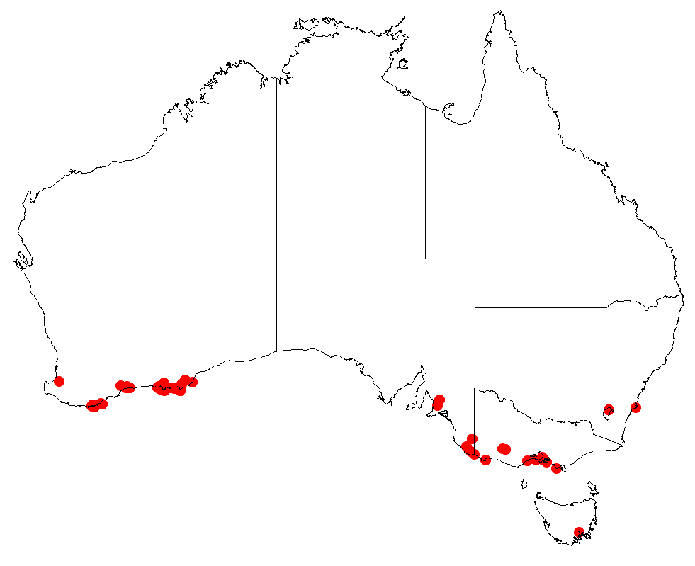 Hakea drupacea Occurrence data downloaded from Australasian Virtual Herbarium on 22 November 2018 using